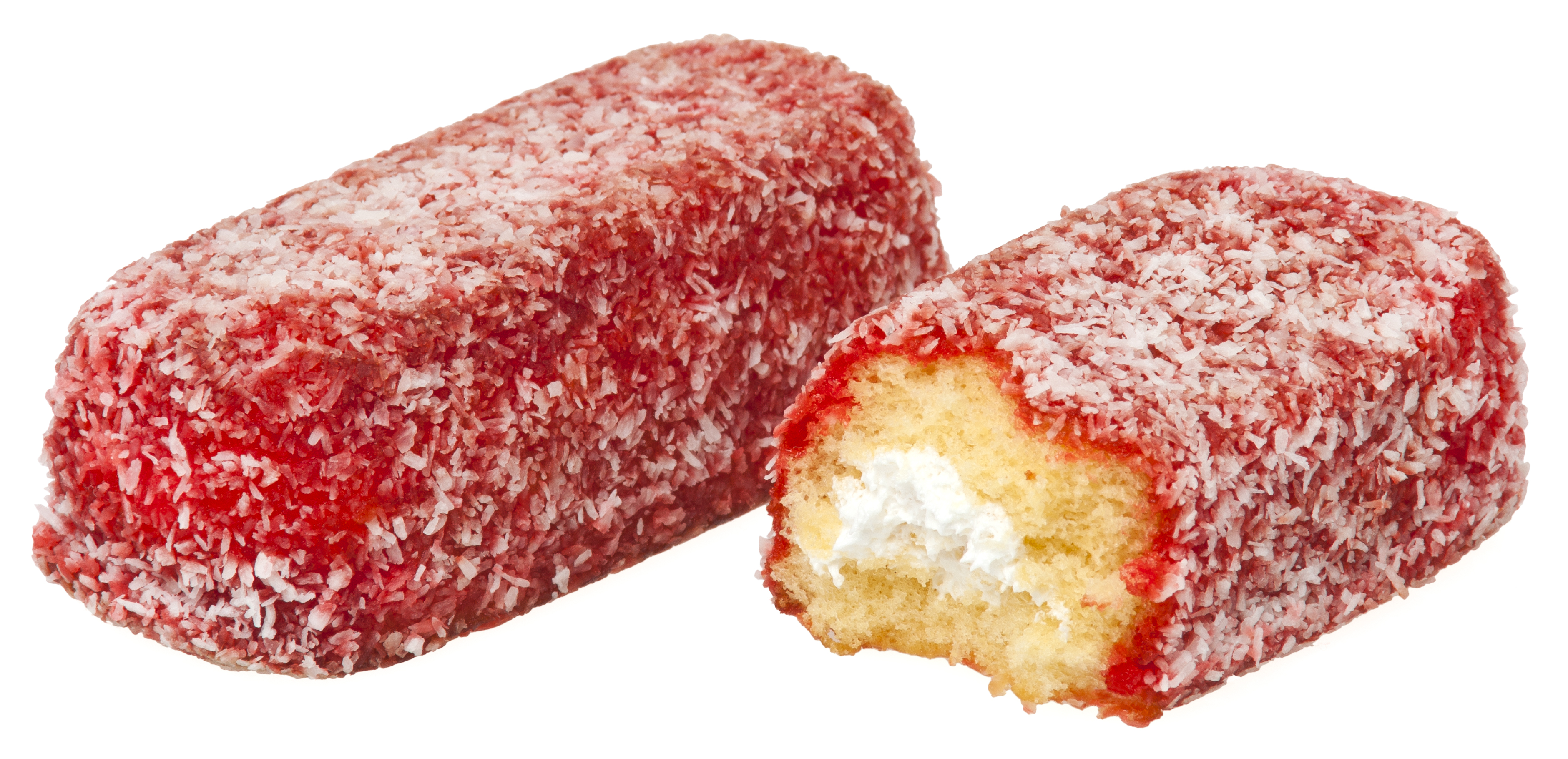 A Hostess Zinger, a Twinkie-like snack cake that is covered with raspberry icing and coconut.